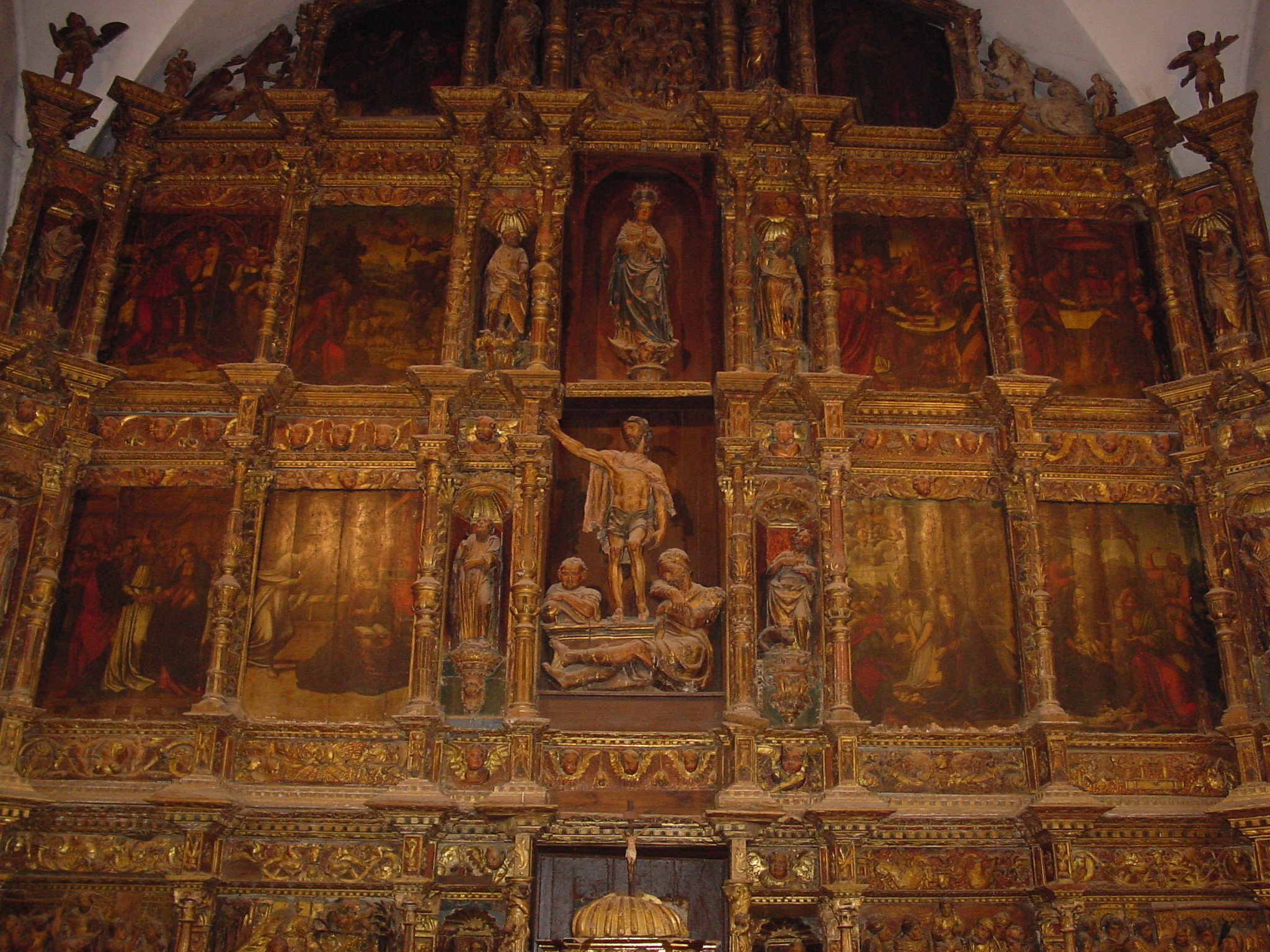 Church of Santa María de Azogue in Valderas, Leon Spain. Main altarpiece. School of Berruguete, 16th century.